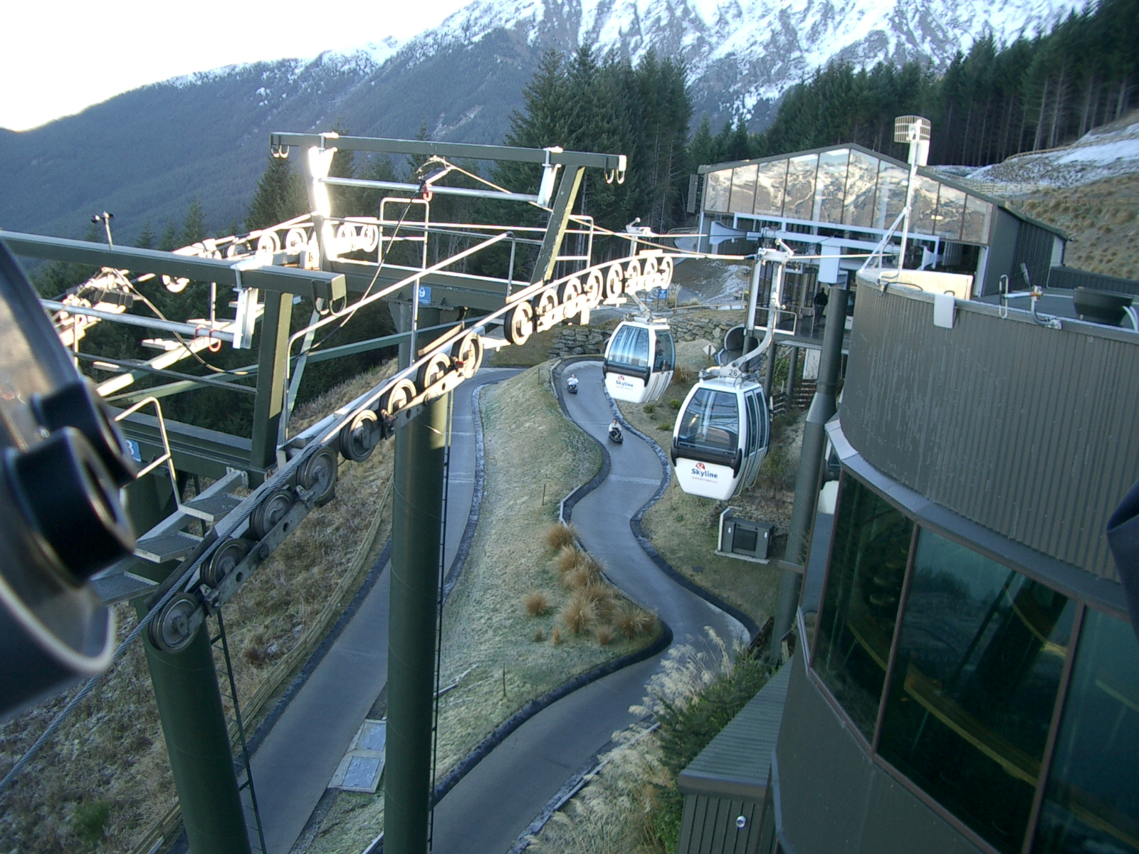 The Gondola at the top of the Skyline building in Queenstown, New Zealand